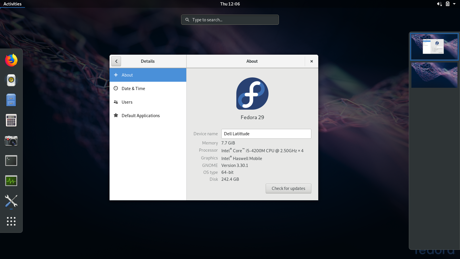 Screenshot of Fedora Linux running Gnome Shell under Wayland on a Dell Latitude.